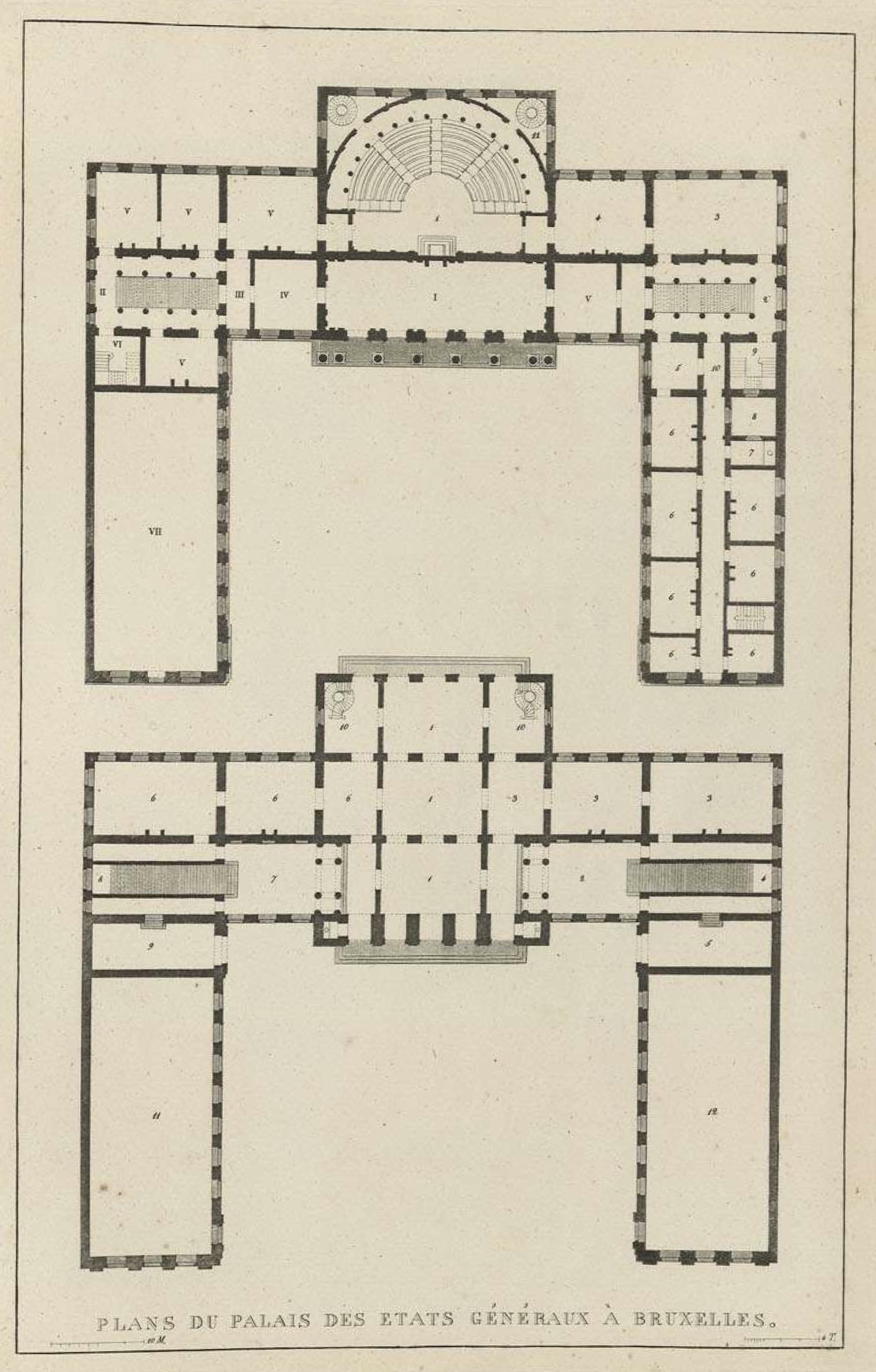 Pierre-Jacques Goetghebuer (1788-1866) became professor of architecture in Ghent, after his studies for architectural drawing at the local art academy. From 1817 he started working on a publication with images of the most remarkable buildings from the newly created United Kingdom of the Netherlands. This book would include both old and contemporary, neoclassicist buildings. Most of the 120 plates depict buildings from the Southern Netherlands, especially Brussels and Ghent. Goetghebuer executed the engravings based upon his own sketches or designs by the architects themselves. Other artists finished the engravings in aquatint. Goetghebuer published this collection of engravings in 1827 with publisher André Benoît II Steven, and he dedicated them to King William I. Many buildings in this book have since disappeared, hence its significant historical importance. Also published in Dutch, with the title Verzameling der merkwaardigste gebouwen in het Koningrijk der Nederlanden.